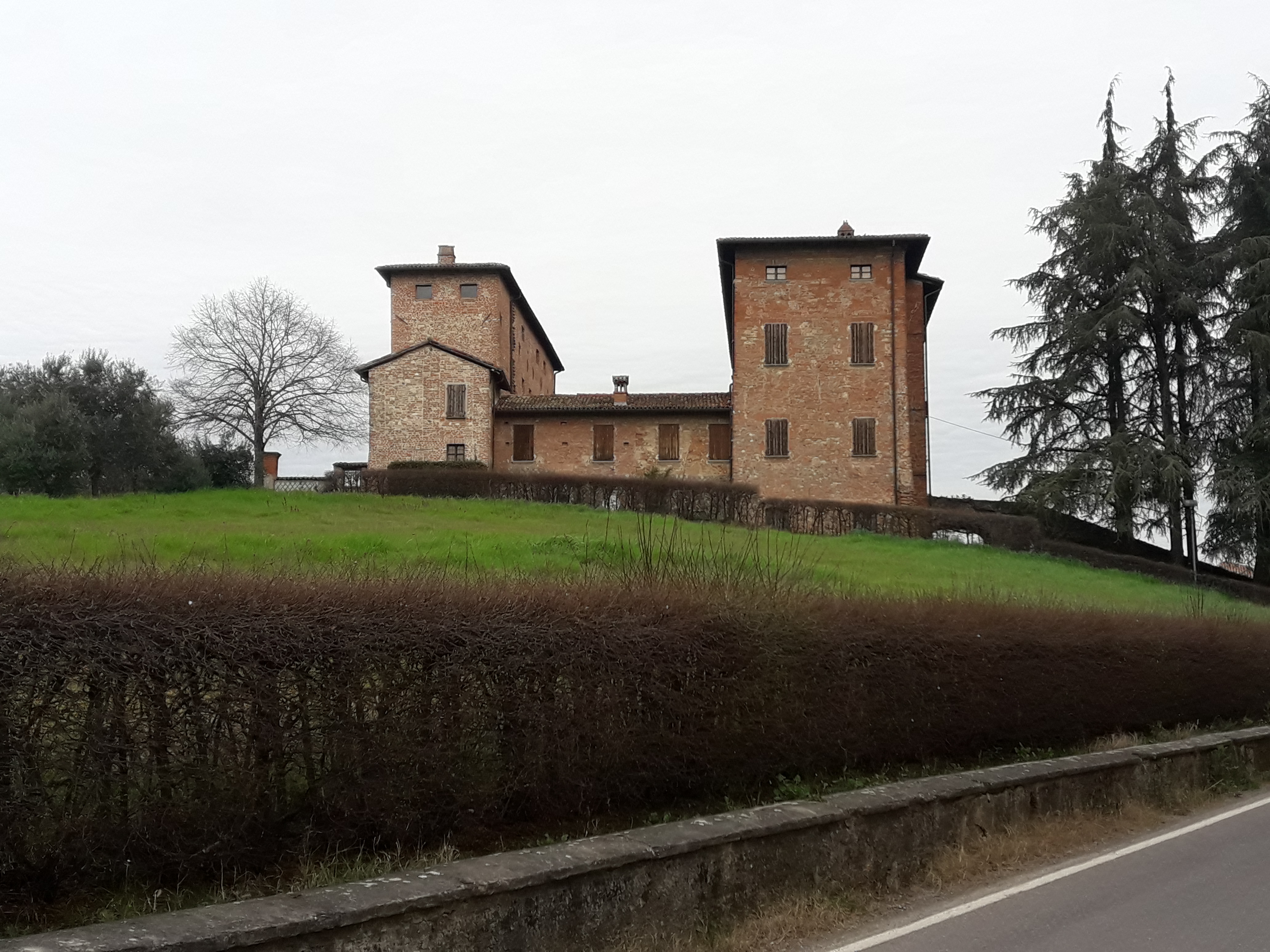 Side view of the castle of Seminò, municipality of Ziano Piacentino, Piacenza, Italy